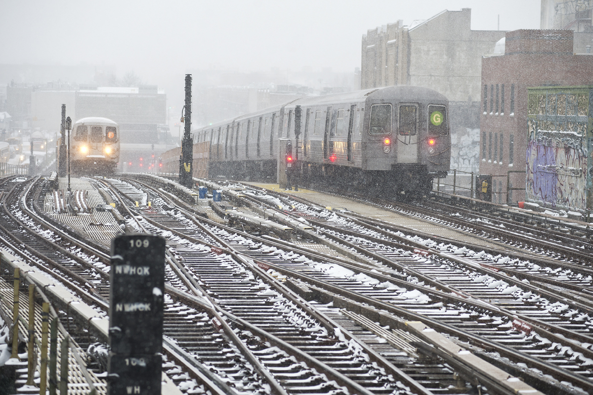 F train travels southbound as G train leaves Ditmas Avenue station in Brooklyn during the snow storm that hit the New York City area on Tuesday, January 21, 2014. Photo: MTA / Patrick Cashin